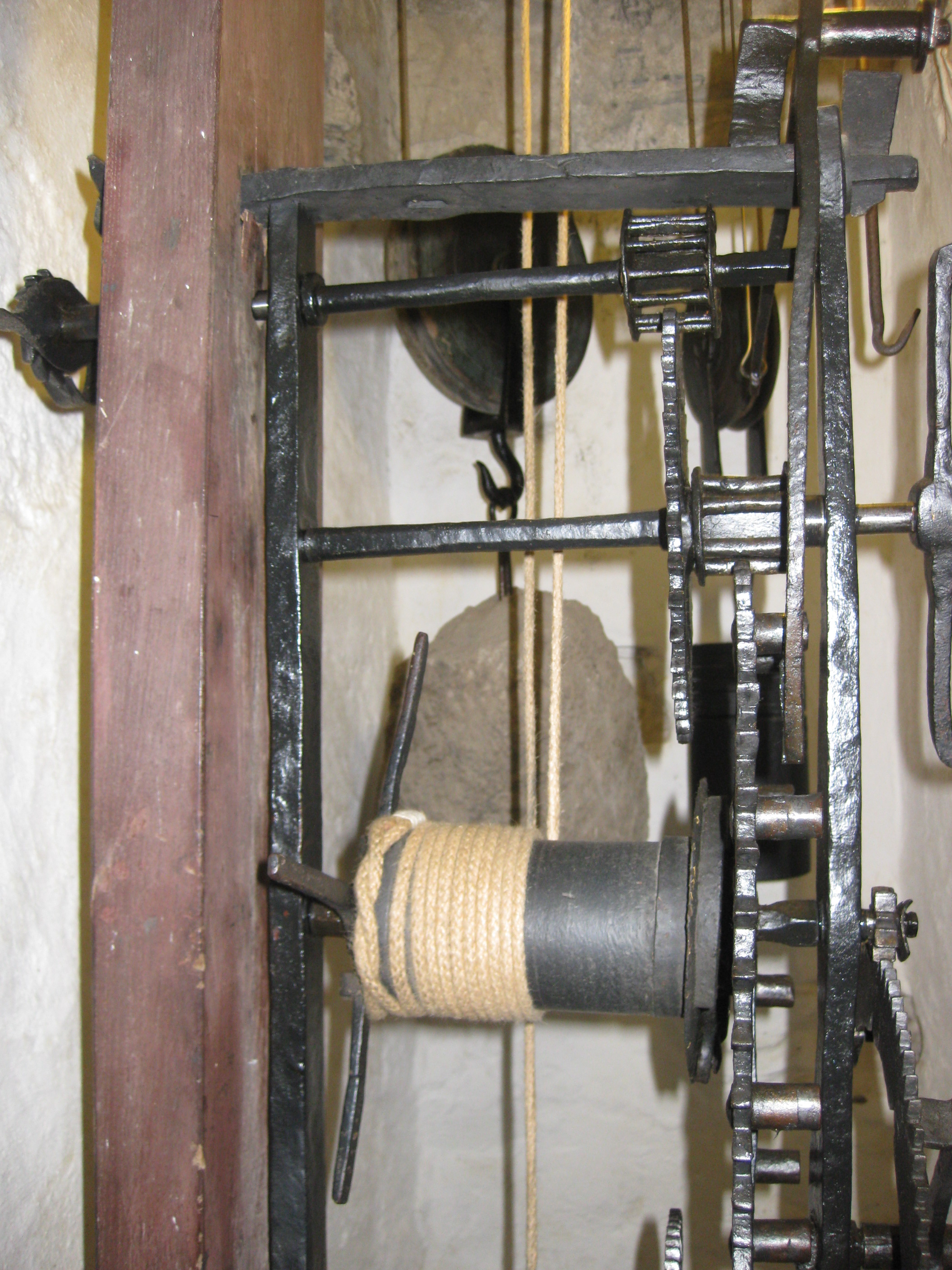 The striking train of the Cotehele clock.